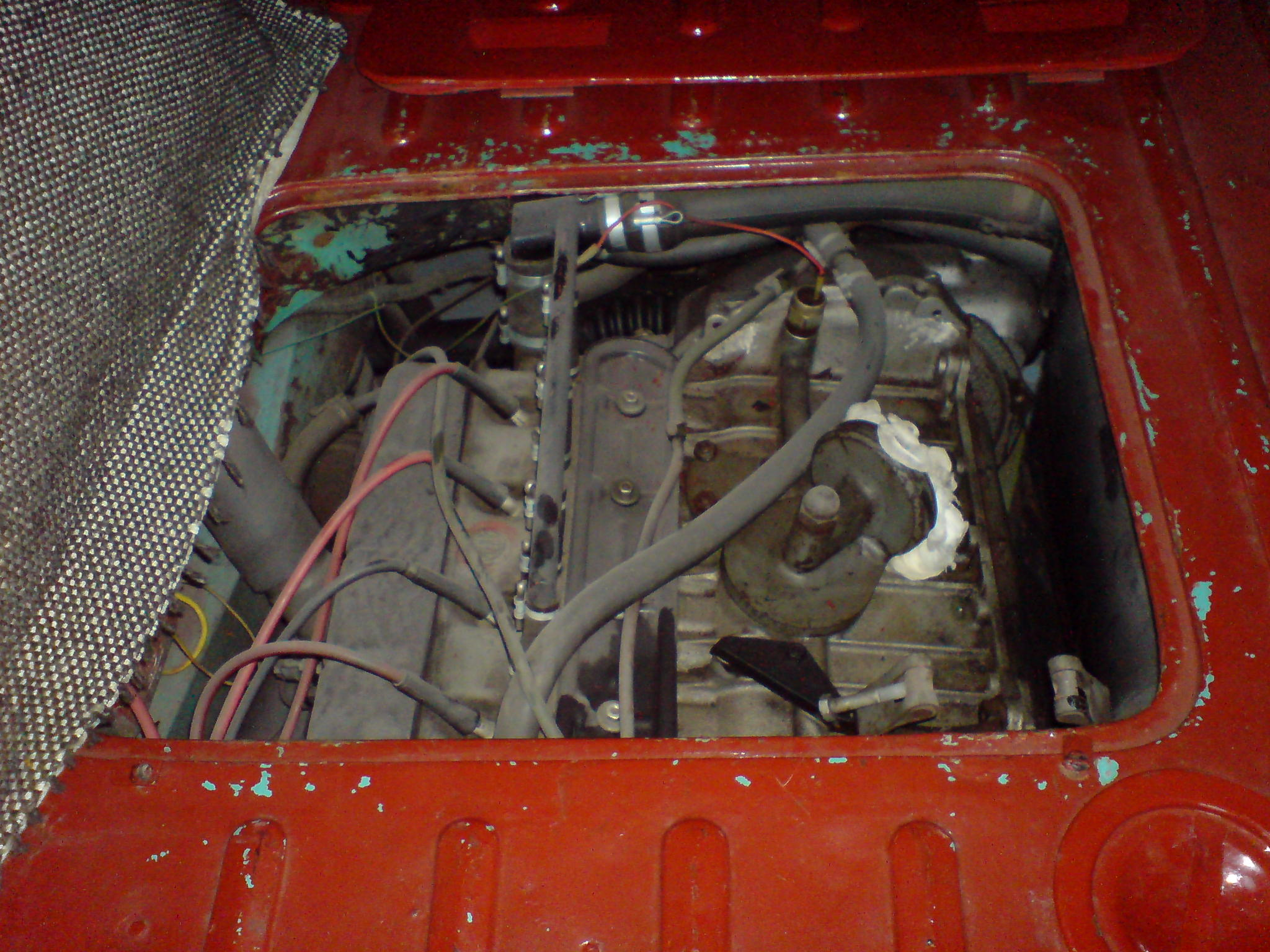 Engine of Škoda 1000MB Combi prototype as viewed from luggage hold throught service door.